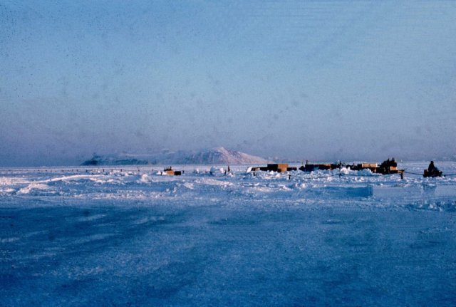 B-52 crash site half-way between Thule Air Base and Saunders Island.